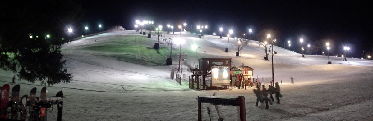 Wilmot Mountain Ski Resort. Base of the hill in the evening. Wilmot, Wisconsin. Photo by Richard C. Drew.